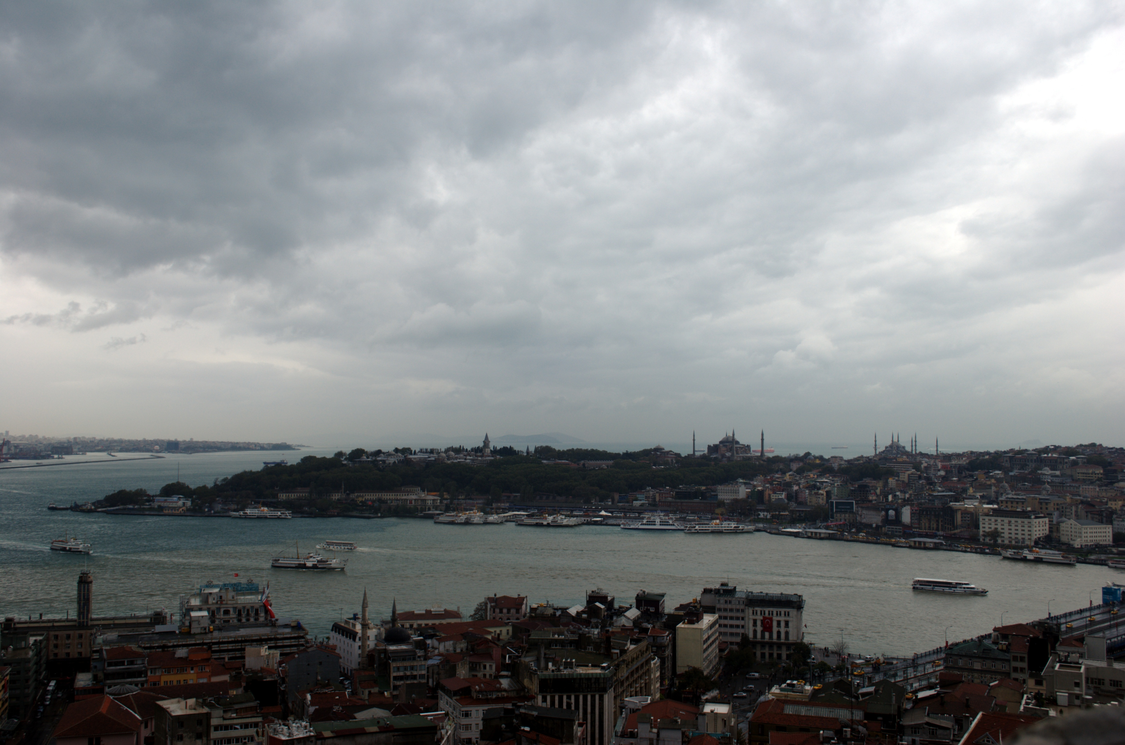 An overview photo of the canal separating East-West Istanbul, taken from the Galata Tower.